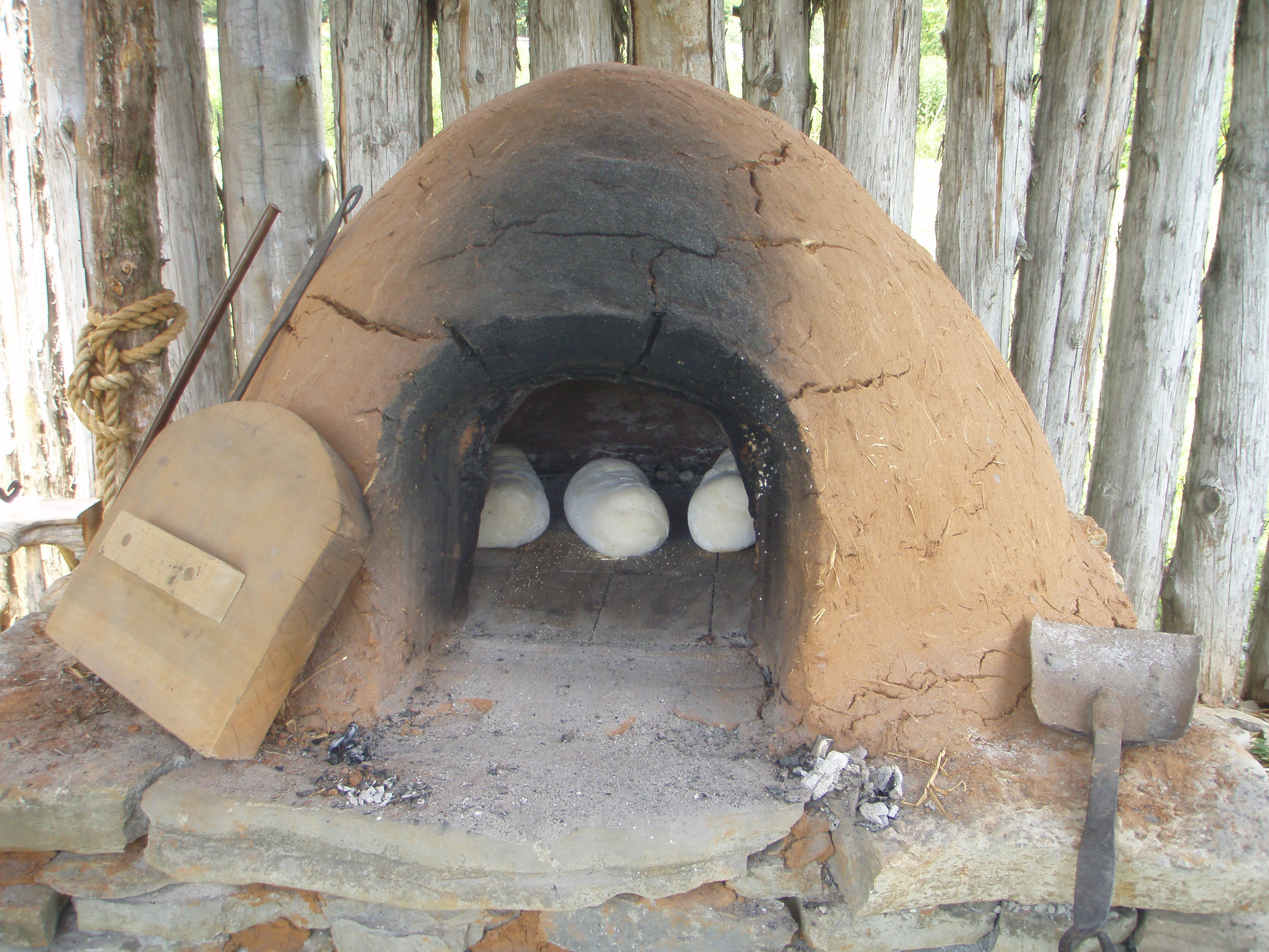 Photos of the 18th century style Bake Oven recently completed at Wilderness Road State Park's Martin's Station.